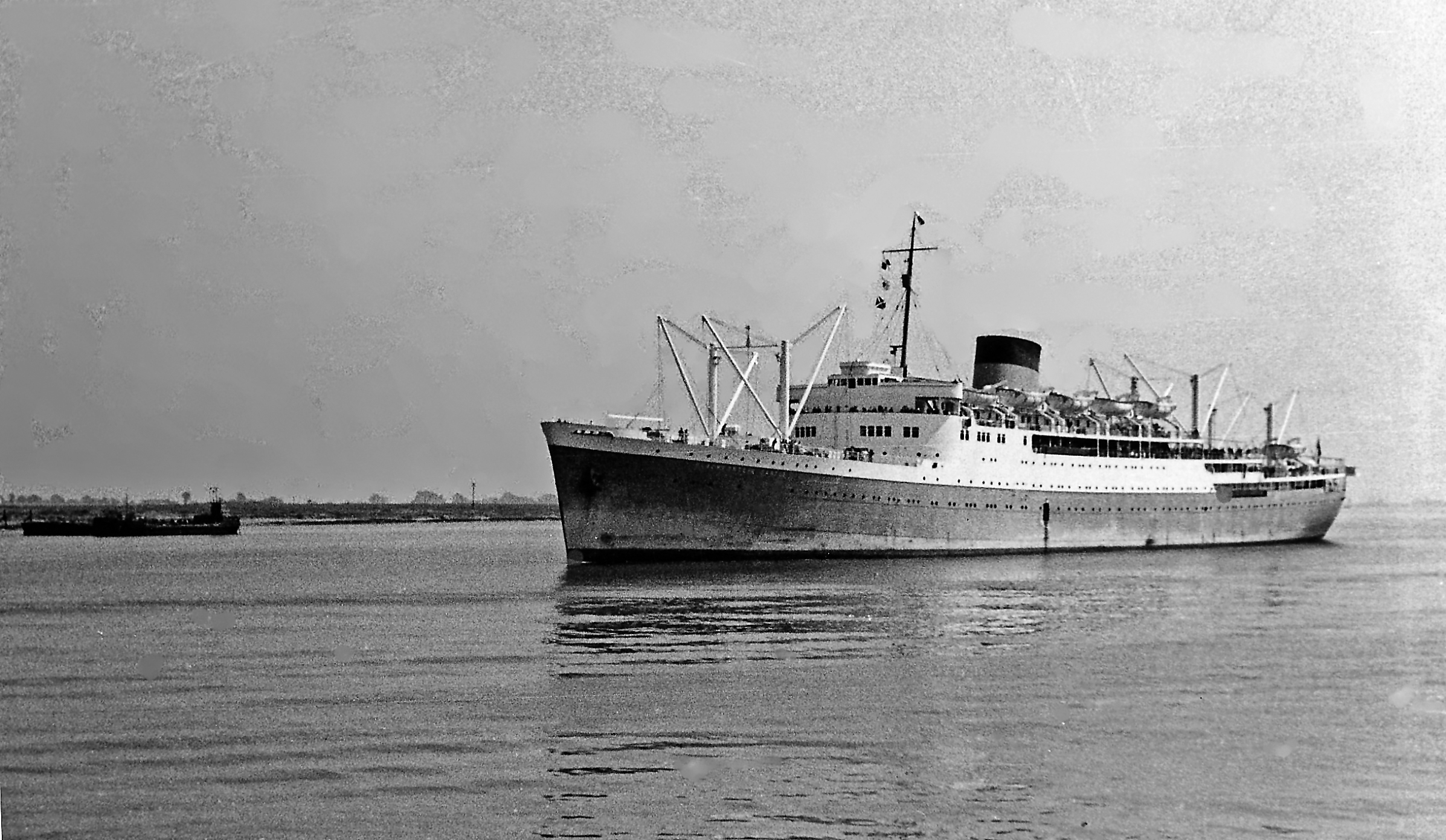 18,400 GRT Union-Castle liner MV Bloemfontein Castle returning to London from her maiden voyage from Capetown via Suez. Viewed downstream from a pleasure boat returning from Southend, the location being uncertain but is probably east of Tilbury. The ship was the first one-class ship of the Union Castle line. She was completed in March 1950, sold and renamed in 1959 and scrapped in 1988.